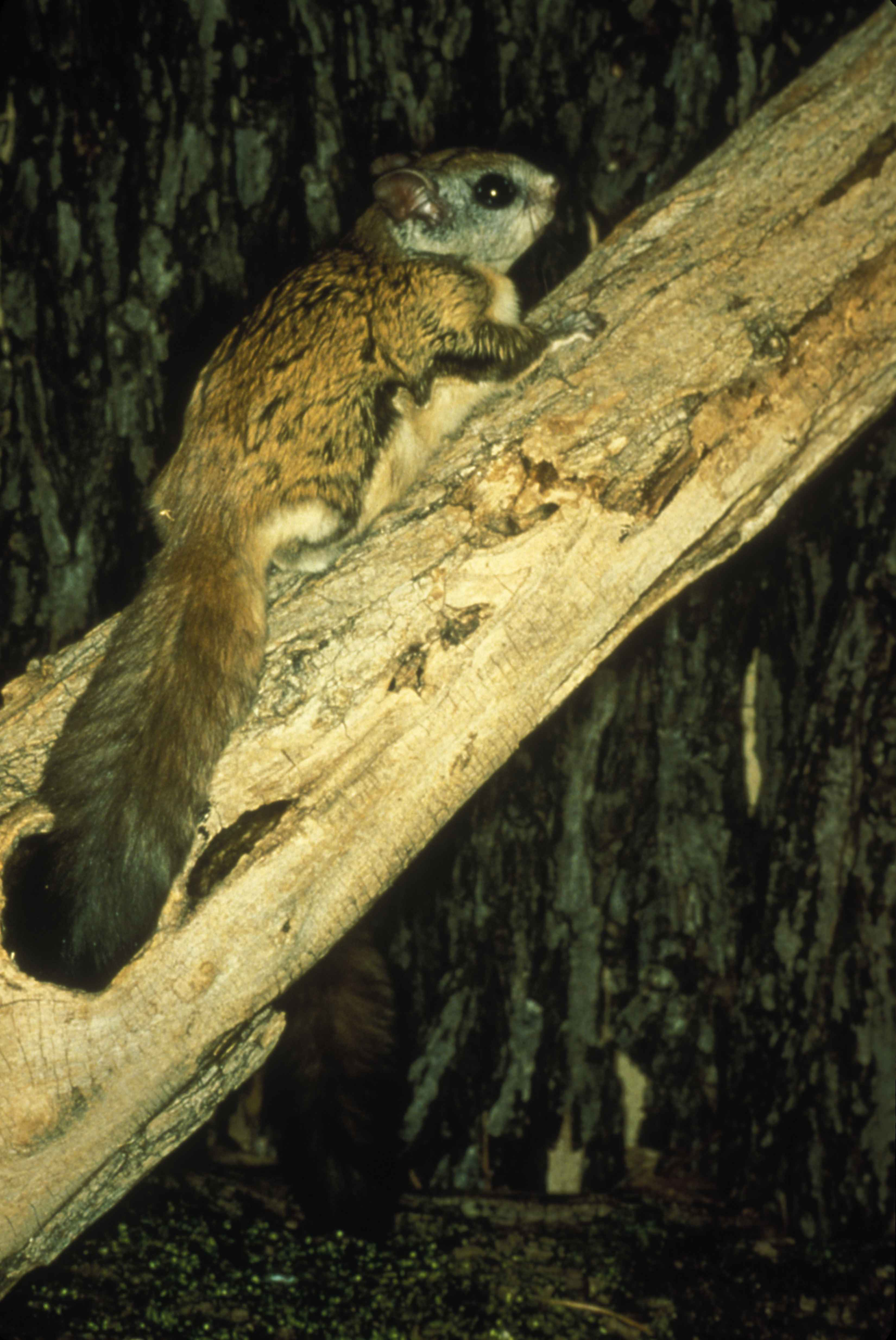 Image title: Virginia northern flying squirrel on a tree glaucomys sabrinus fuscus Image from Public domain images website